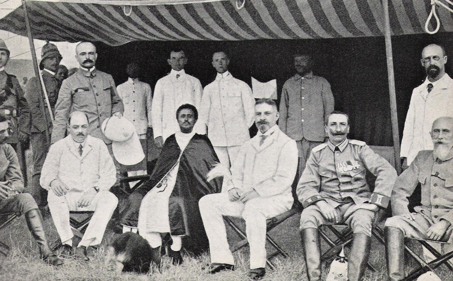 Ras Mekonnen with a German mission around 1906